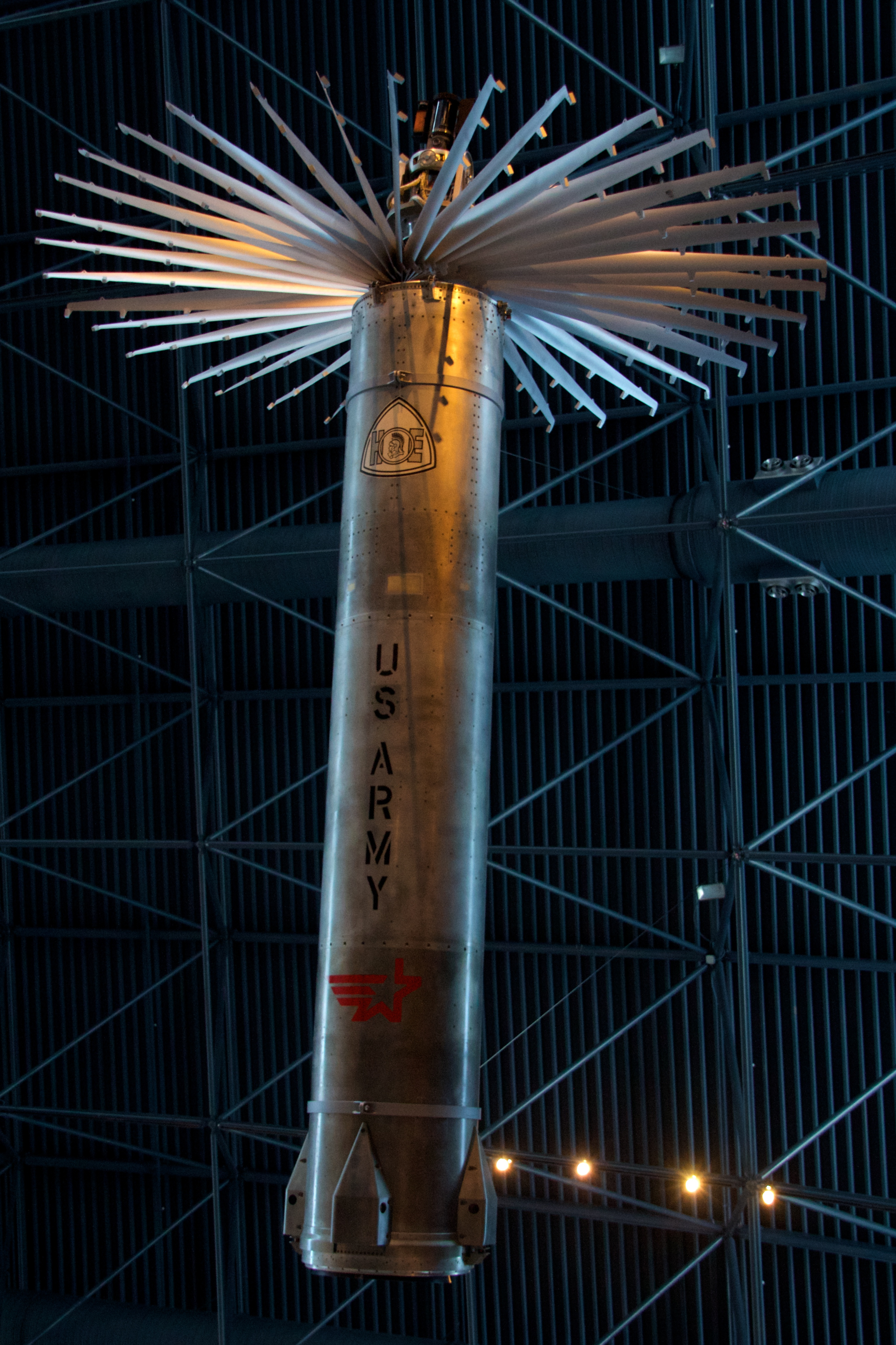 Homing Overlay Experiment Test Vehicle, at the Steven F. Udvar-Hazy Center, Washington, D.C.